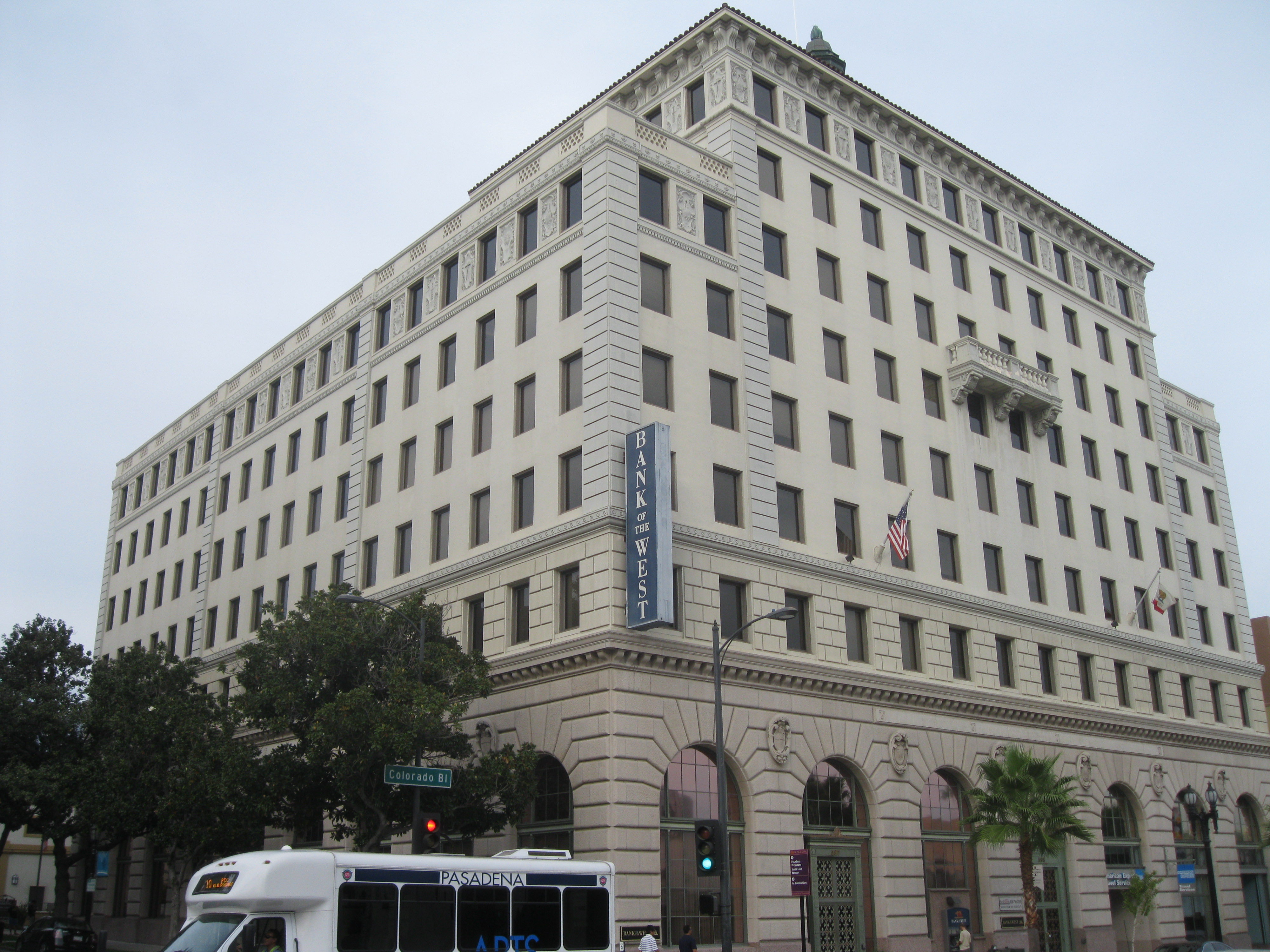 First Trust Building and Garage in Pasadena, California, listed on the National Register of Historic Places.